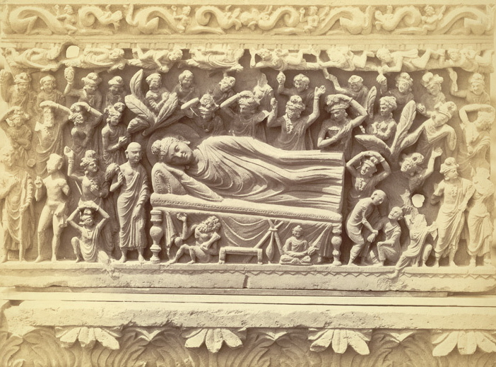 Photograph of a Buddhist sculpture from Loriyan Tangai, taken by Alexander Caddy in 1896. This style of sculpture, influenced by Graeco-Roman elements, is known as Gandharan and takes its name from the ancient kingdom of Gandhara (Peshawar) which, together with Udyana (Swat), corresponded fairly closely to the northern part of the North West Frontier Province. The 'Death of Buddha' (Mahaparinirvana) was one of the earliest and most popular subjects for Gandharan sculptors and this slab shows the flowing robes and curly hair which were specific features of this type of sculpture. The frieze of small figures riding sea-monsters also shows evidence of the aforementioned Graeco-Roman influence. Oriental and India Office Collection, British Library. Downloaded from the British Library web site by Fowler&fowler«Talk» 04:13, 16 March 2007 (UTC)